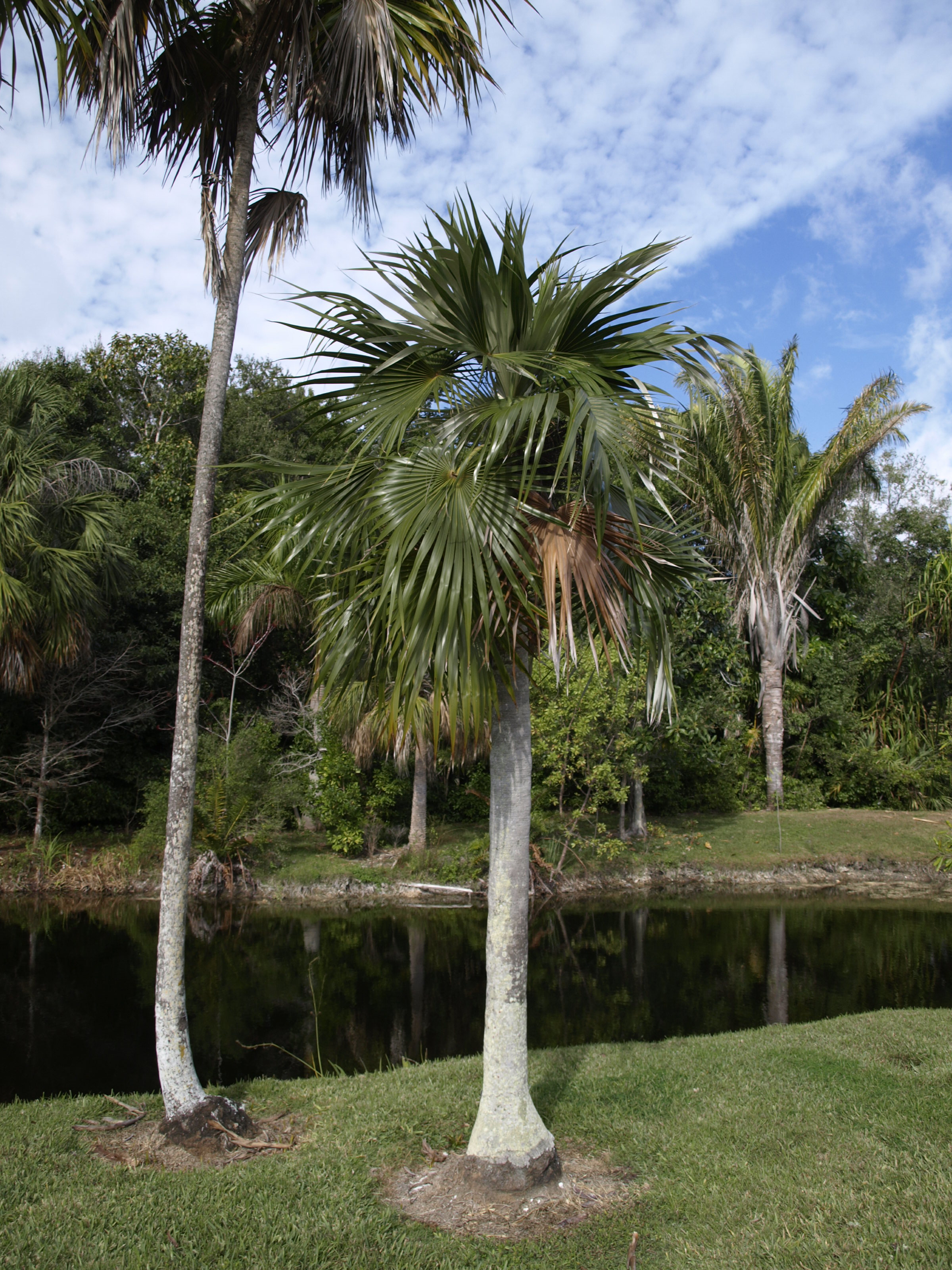 Coccothrinax readii, Fairchild Tropical Botanic Garden, Miami, Florida, USA.